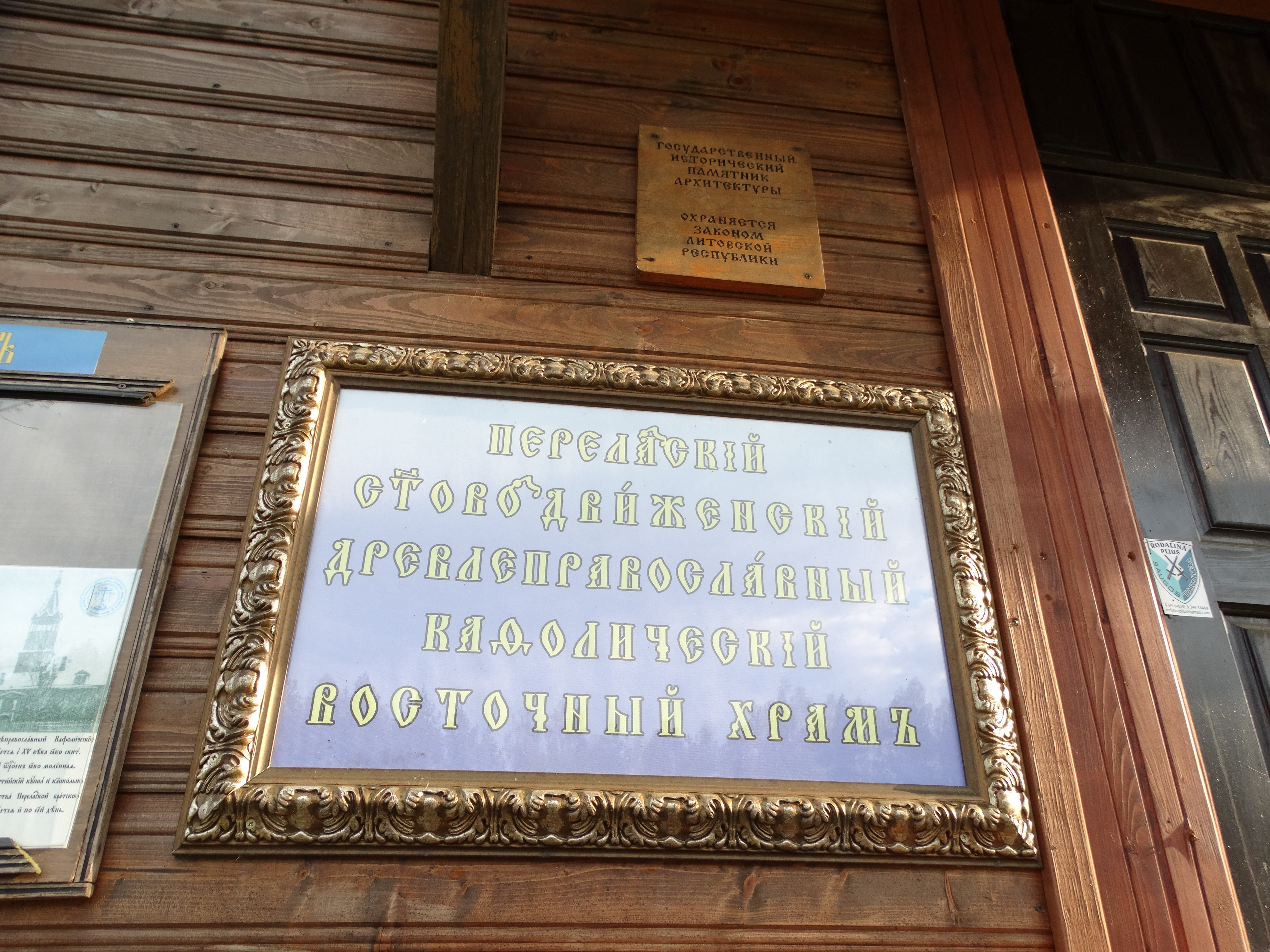 Orthodox Church of Old Believers in Perelozai, Jonava District, Lithuania